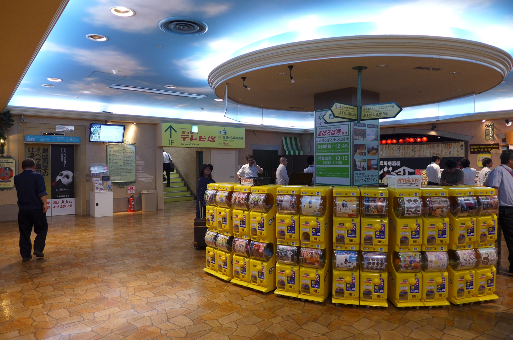 Sapporo Television Tower Basement Shops